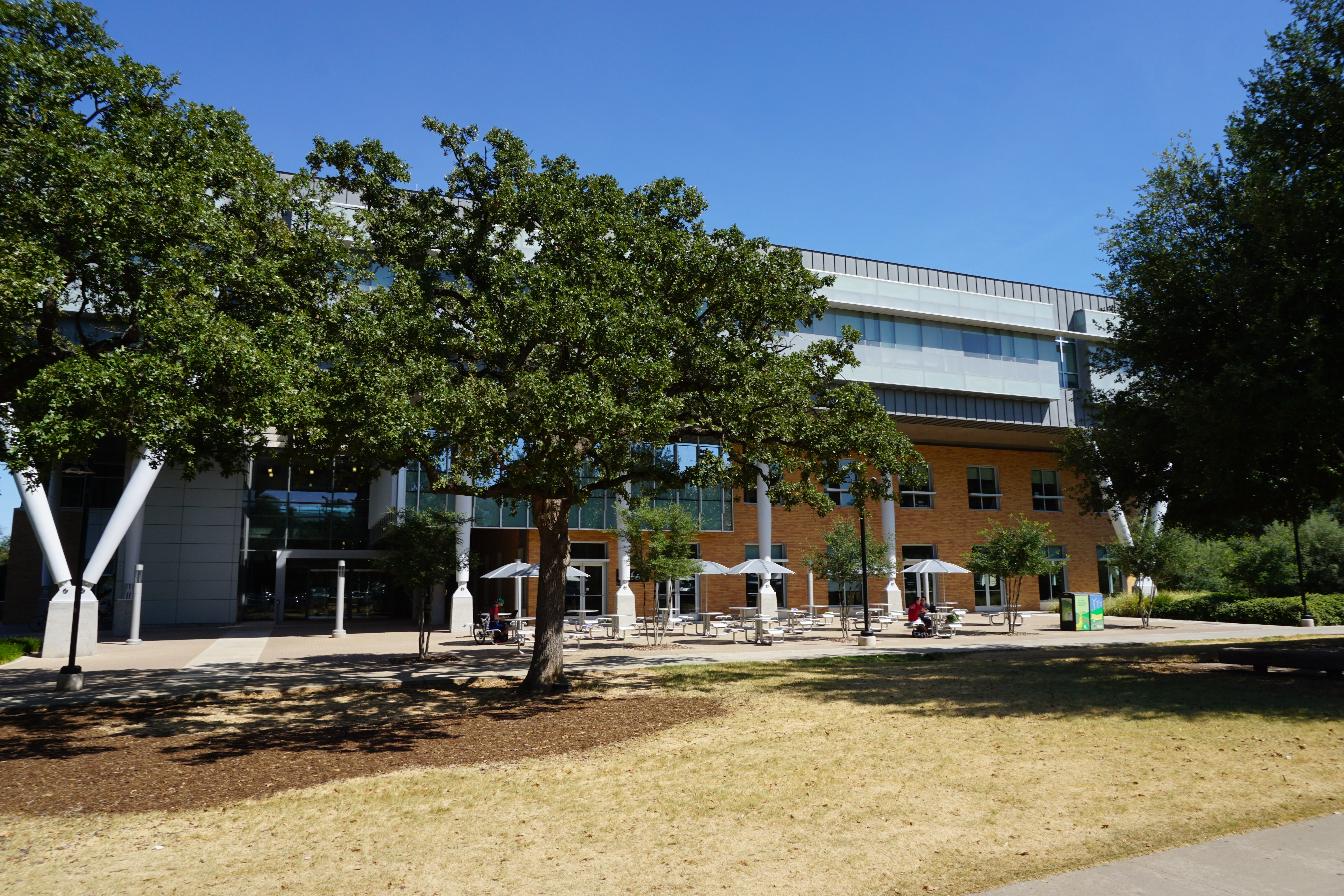 The Business Leadership Building on the campus of the University of North Texas in Denton, Texas (United States).